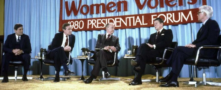 Republican Debate with Ronald Reagan, Philip Crane, George Bush and John Anderson with moderator Eric Sevareid in Chicago, Illinois. 3/13/80.